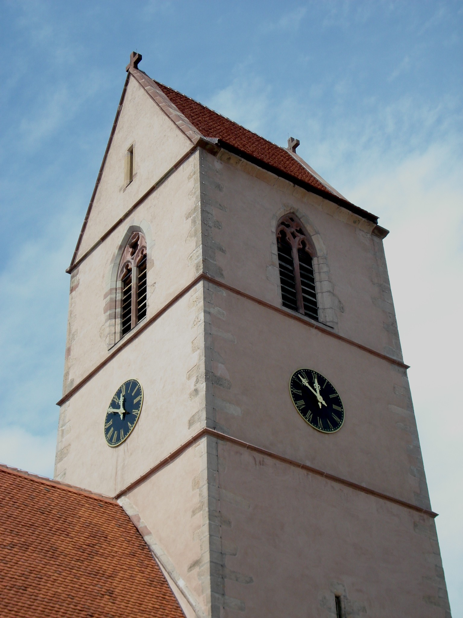 The bell tower of Church of Wattwiller